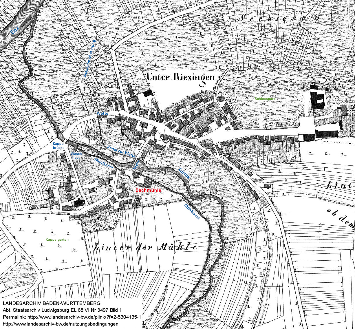 Bachmühle in Unterriexingen